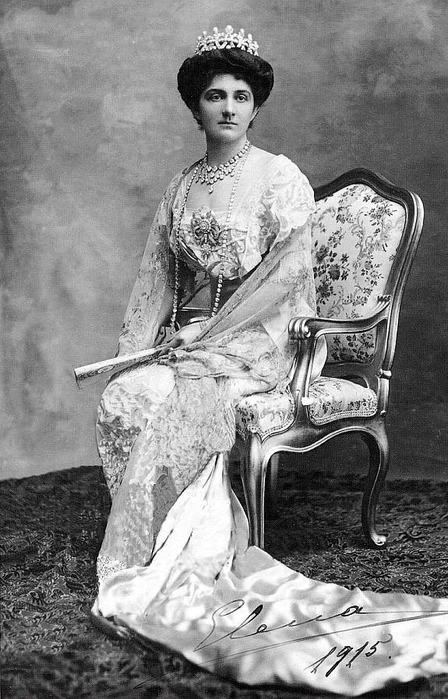 Formal portrait of Queen Elena of Montenegro